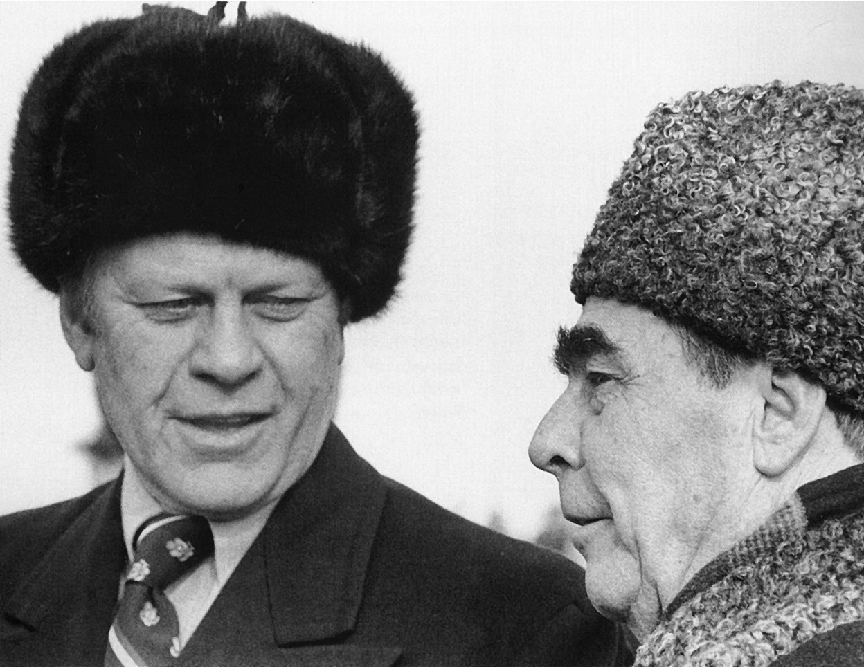 Gerald Ford and Leonid Brezhnev meeting in Vladivistok.